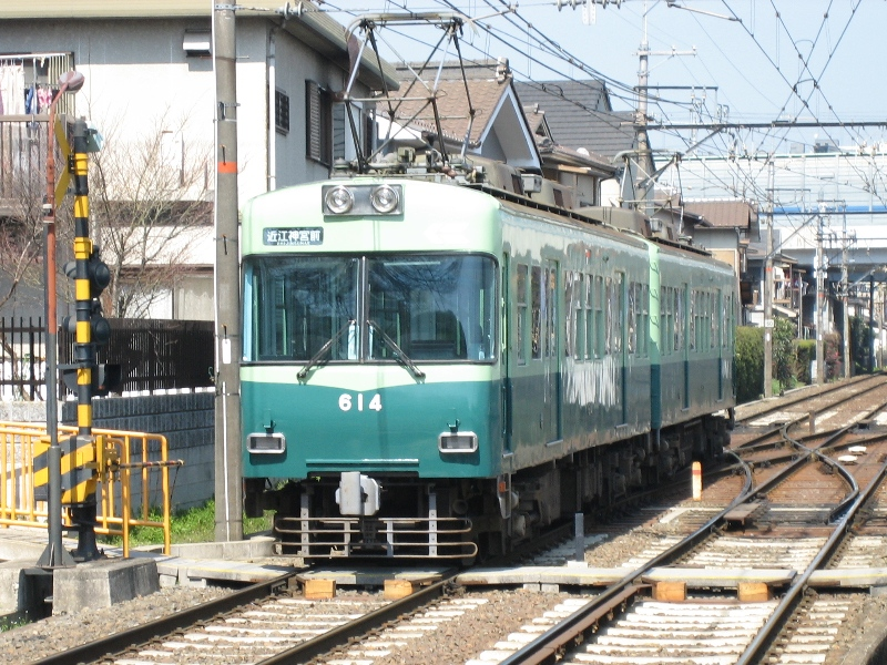 Keihan Electric Railway 600 series EMU set 613 arriving at Ishiyamadera Station